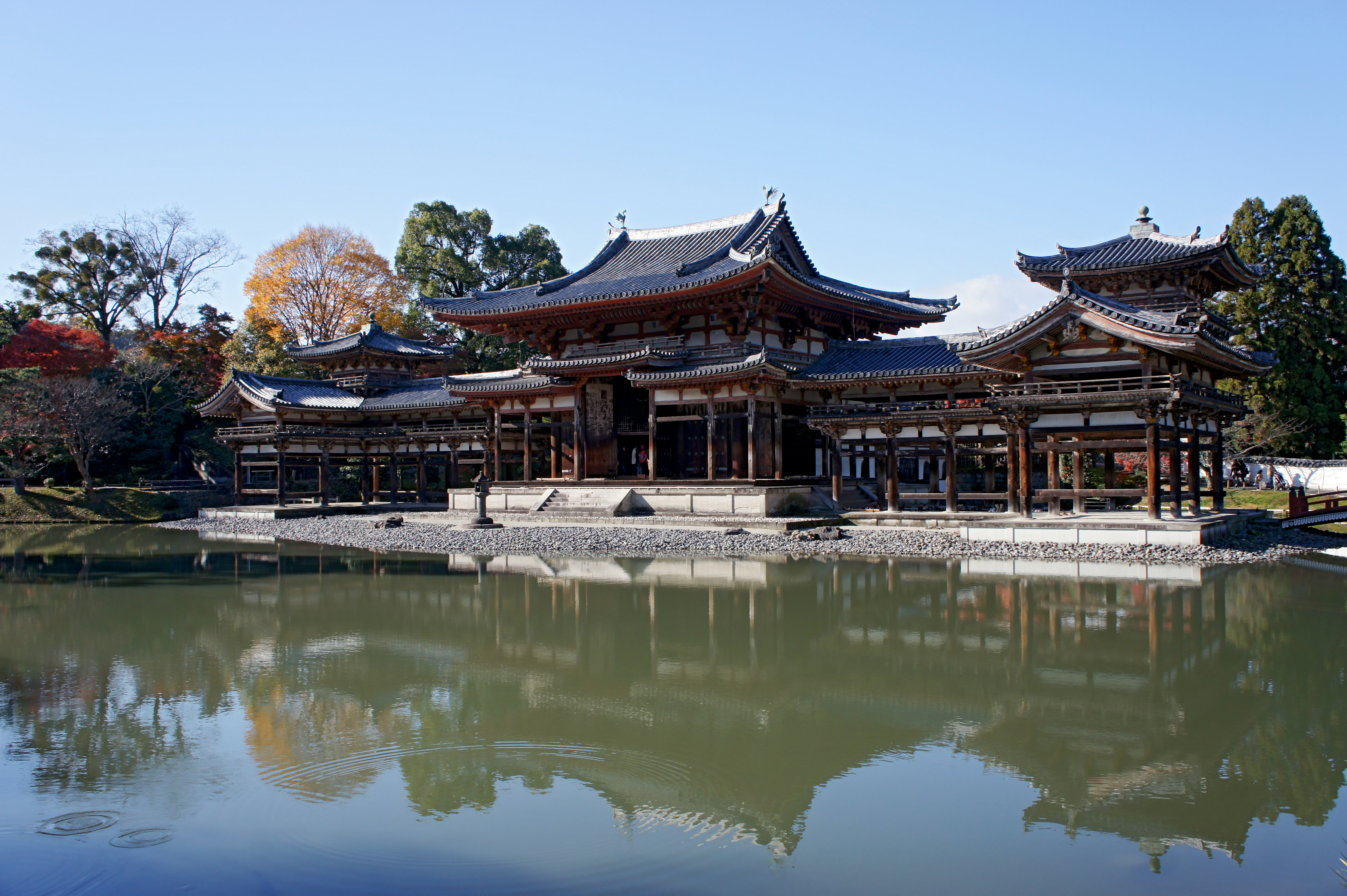 Byōdō-in's Phoenix Hall is a Japan's National Treasure in Uji, Kyoto prefecture, Japan. It was built in 1153. Byōdō-in was registered as part of the UNESCO World Heritage Site "Historic monuments of ancient Kyoto".